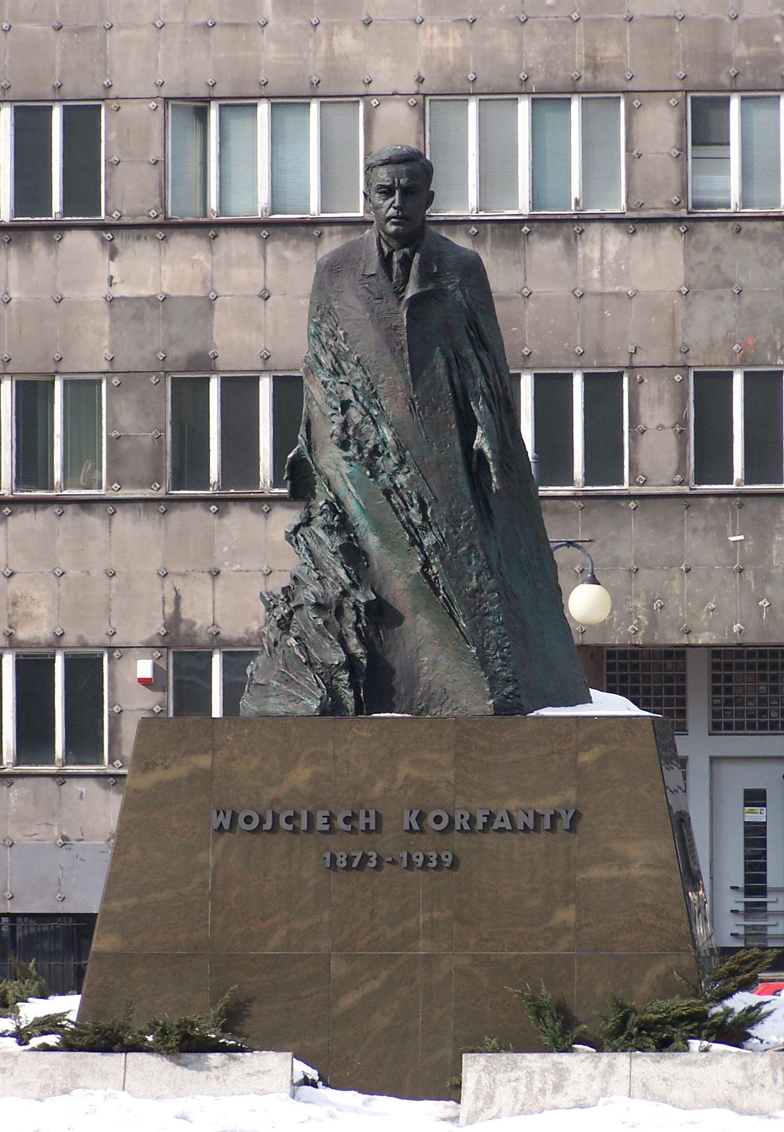 Wojciech Korfanty (Katowice, Poland).